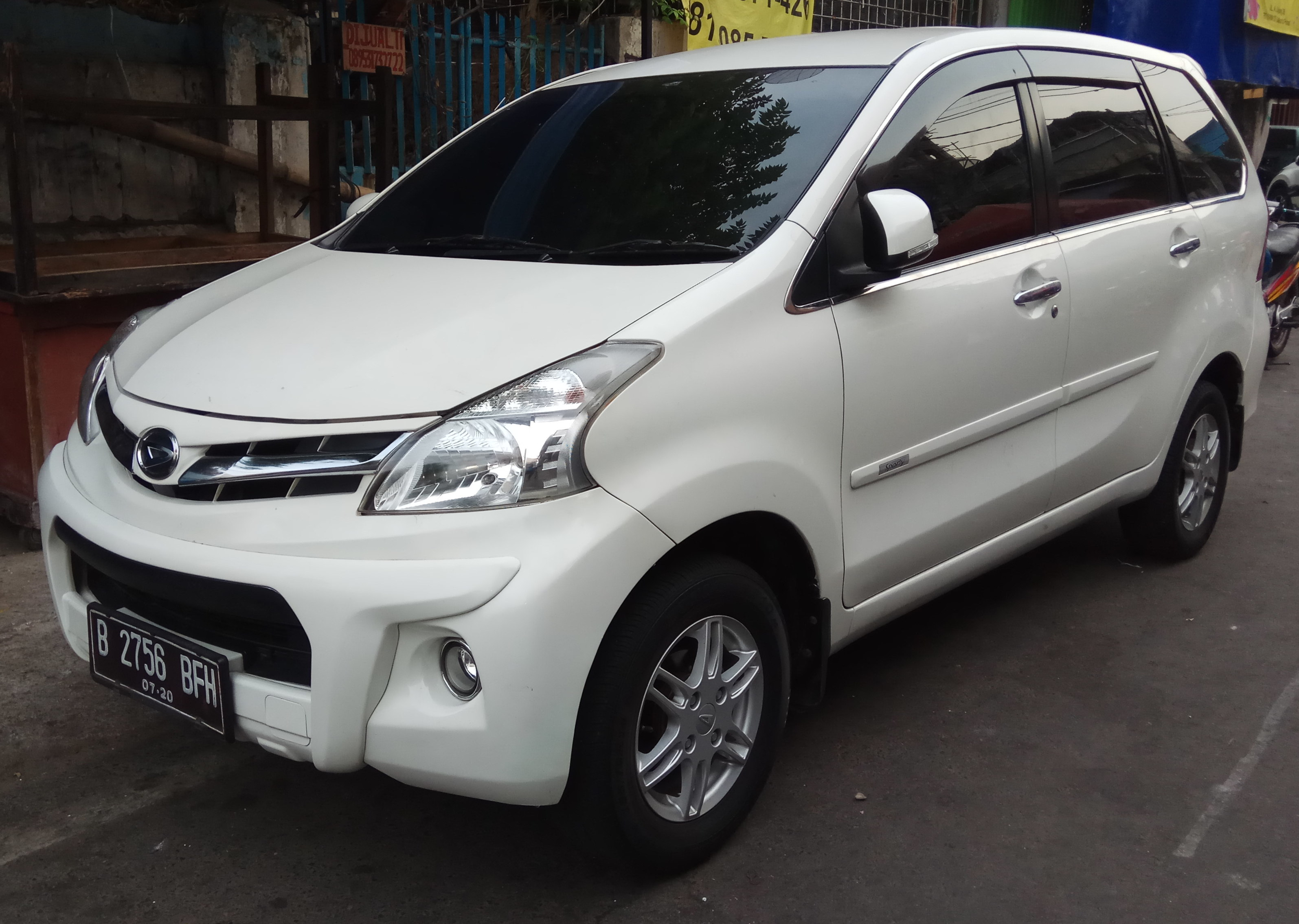 2015 Daihatsu Xenia 1.3 R AT Sporty photographed in Sawah Besar, Central Jakarta, Indonesia.